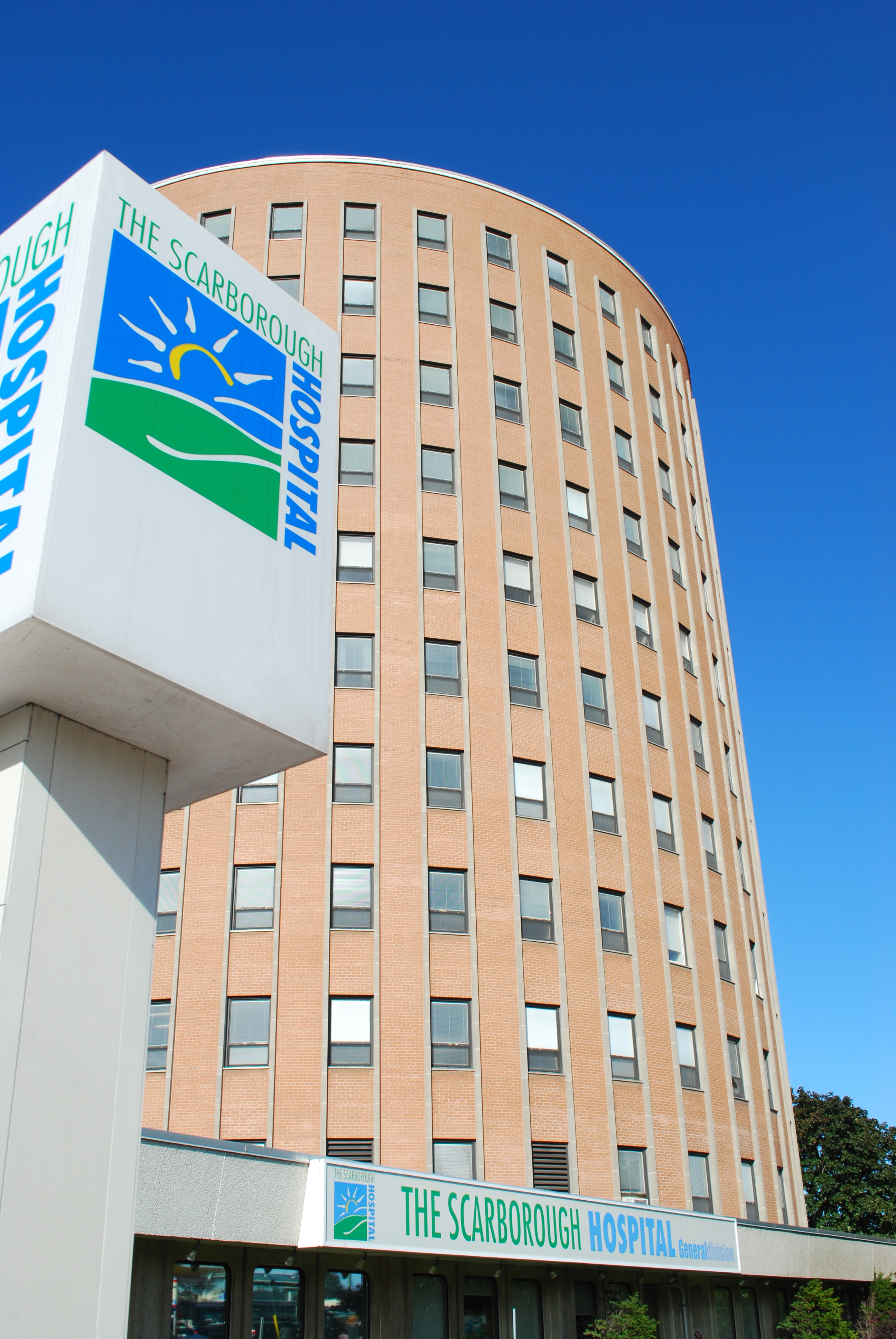 Exterior photo of TSH at 3050 Lawrence Ave. E